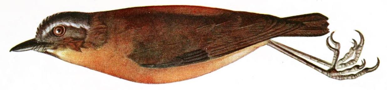 Cossypha bocagei albimentalis Sassi = Cossypha archeri subsp. archeri Title: Annalen des Naturhistorischen Museums in Wien Year: 1916 (1910s) Authors: Naturhistorisches Museum (Austria) Subjects: Naturhistorisches Museum (Austria); Natural history Publisher: Wien, Naturhistorisches Museum [etc. ] Text Appearing Before Image: Dr. Moriz Sassi: Zur Ornis Centralafrikas. Tafel VII. Text Appearing After Image: Phyllastrephus lorenzi Sassi. Cossypha bocagei albimentalis Sassi. Pitta reichenowi Madarasz. Annalen des k. k. naturhistorischen Hofmuseums, Band XXX, 1916. Vierfarbenätzung von Max ]aili, Wien. Druck von Friedrich Jasper in Wien.